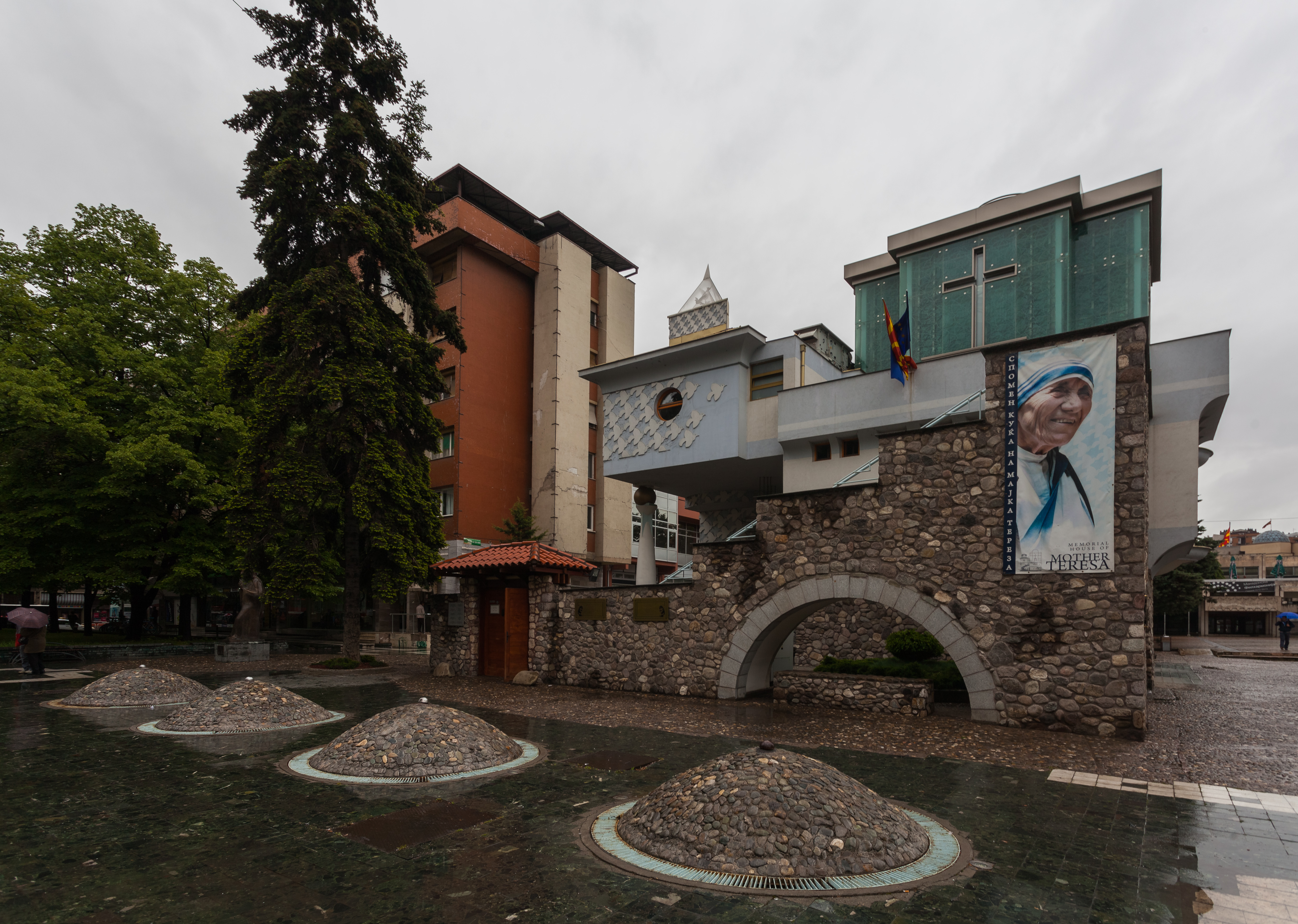 Mother Teresa Memorial Home, Skopje, Macedonia